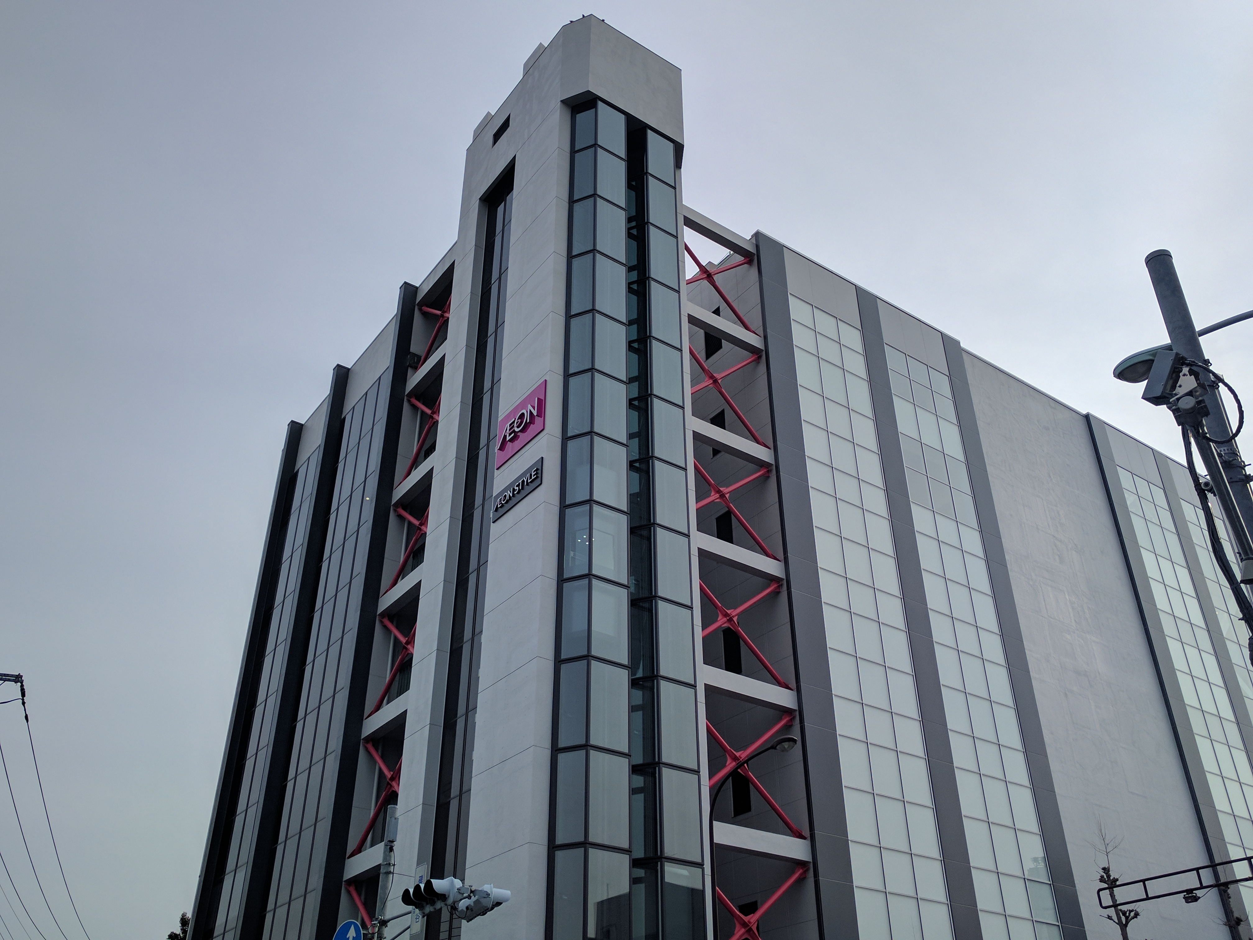 Aeon style Himonya